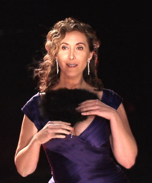 This is Kate Michael's picture. A jazz singer.